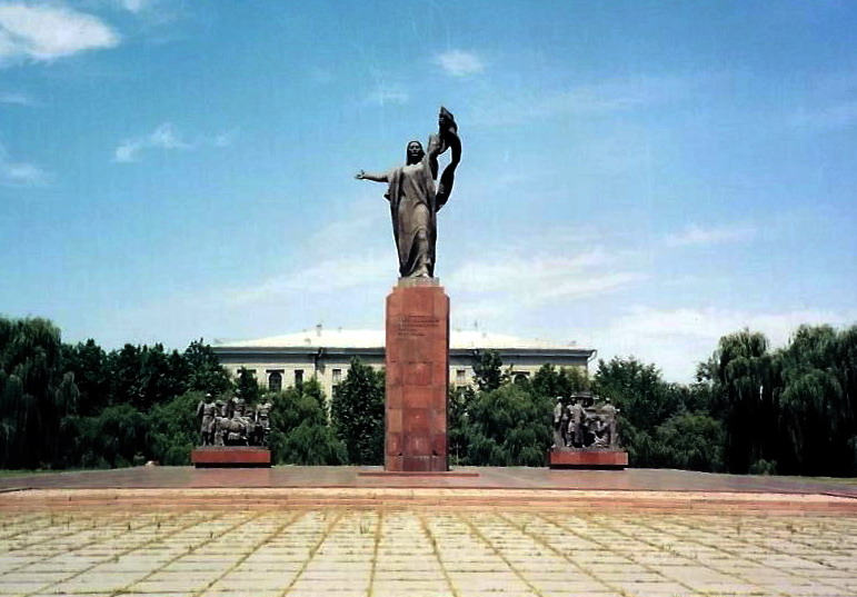 This is a minor square in Bishkek, not far away from the main square (where the museum and the Lenin statue is). I took the picture myself in 2002 (I scanned the developed picture).